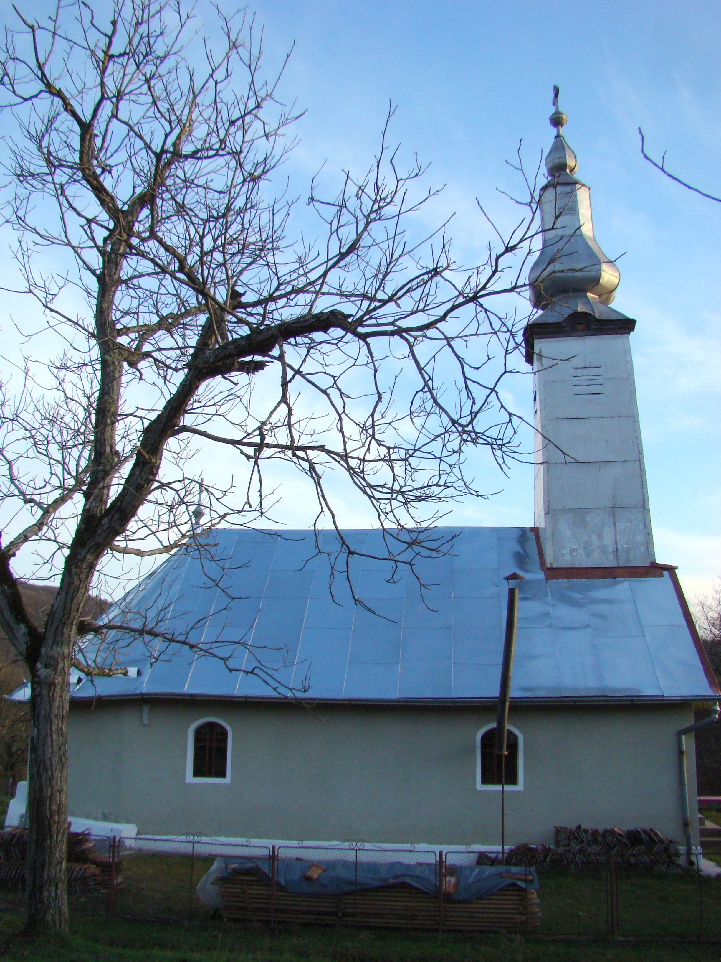 Wooden church in Valea Mare, Arad county, Romania